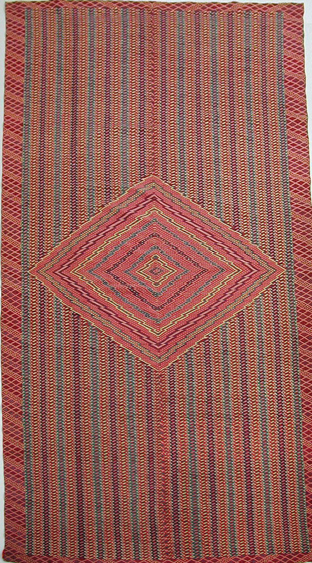 Saltillo; Serape; Textiles-Woven